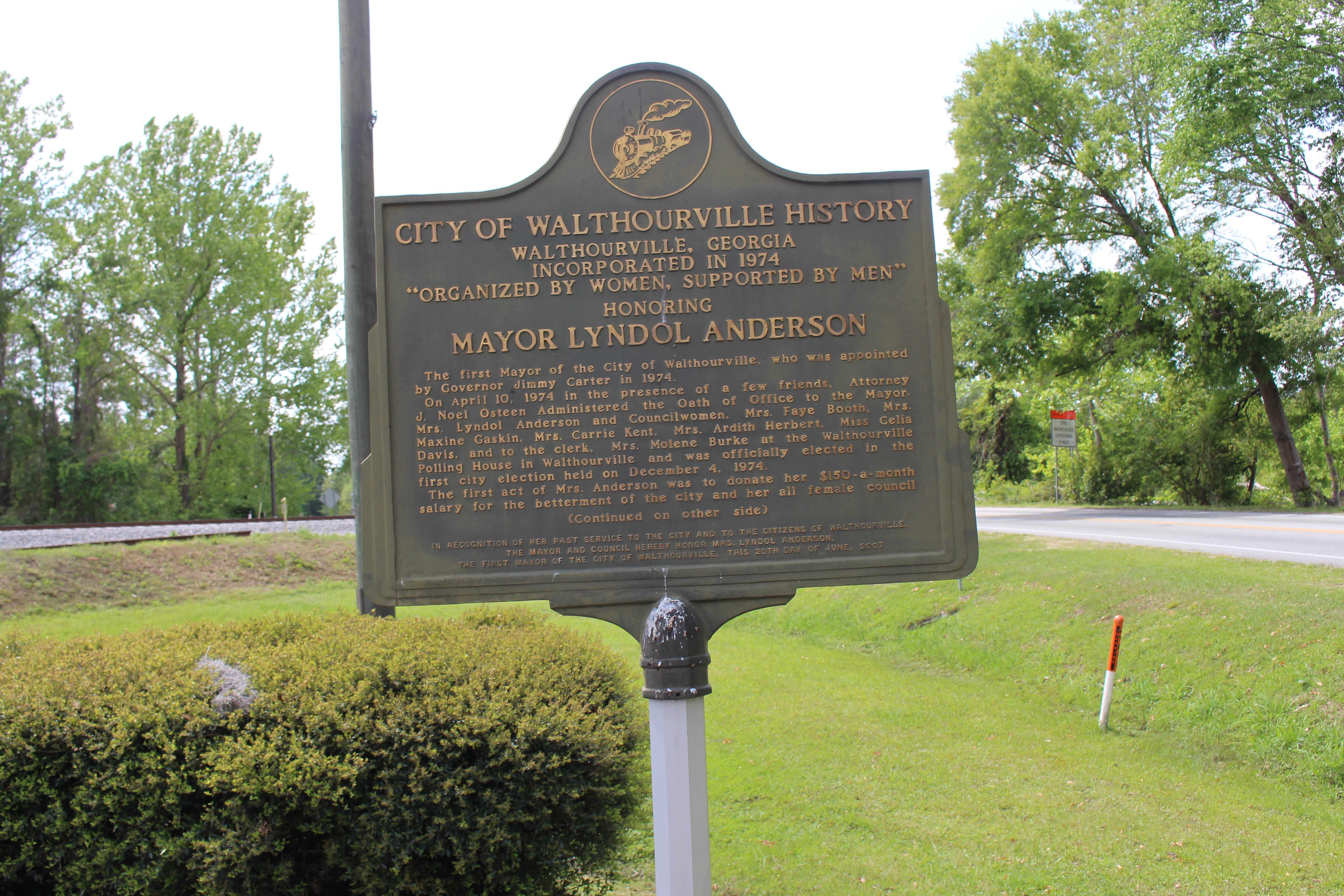 Walthourville, Liberty County, Georgia